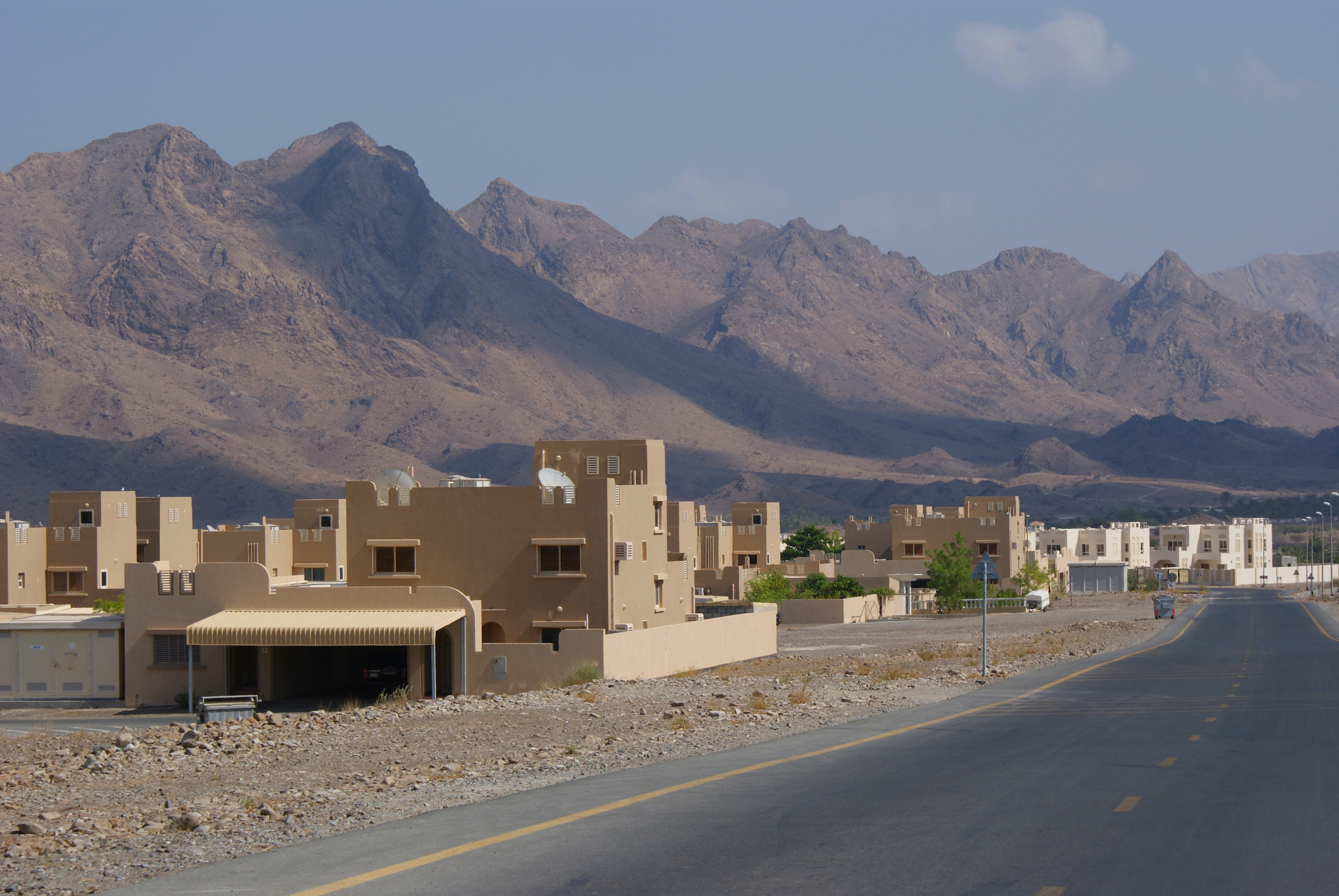 Hatta. Exclave of the Emirat of Dubai in the Hajar Mountains